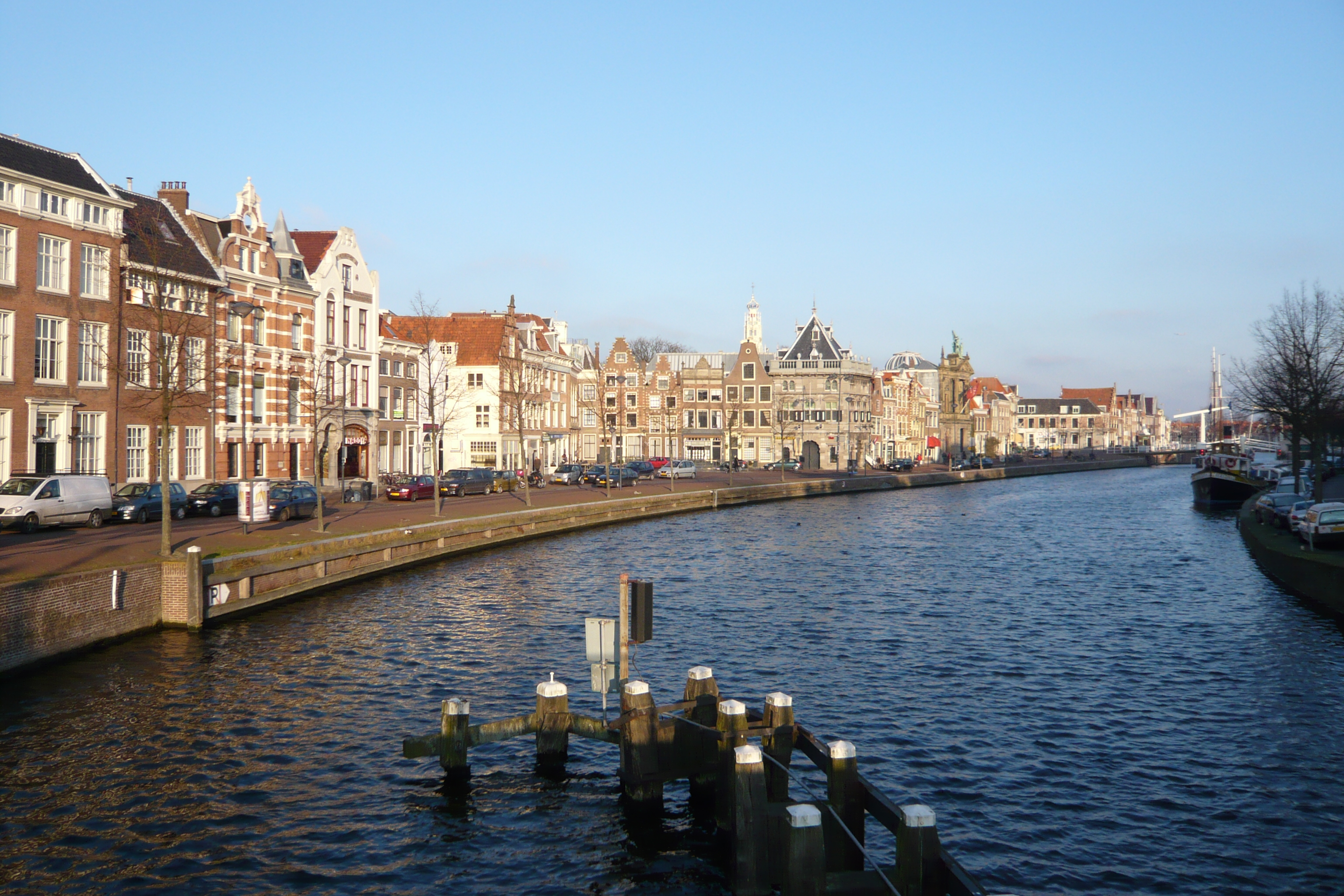 View of the Haarlem houses (in the middle, the gray building is the Waag, or weigh house) on the Spaarne river. The white tower of the Bakenesserkerk can be seen, and to the right of that the dome behind the entrance to the Teylers Museum. Along the river, the white bridge Gravestenenbrug bars the view of tall ships moored on the riverside. The picture is taken from the bridge Melkbrug.